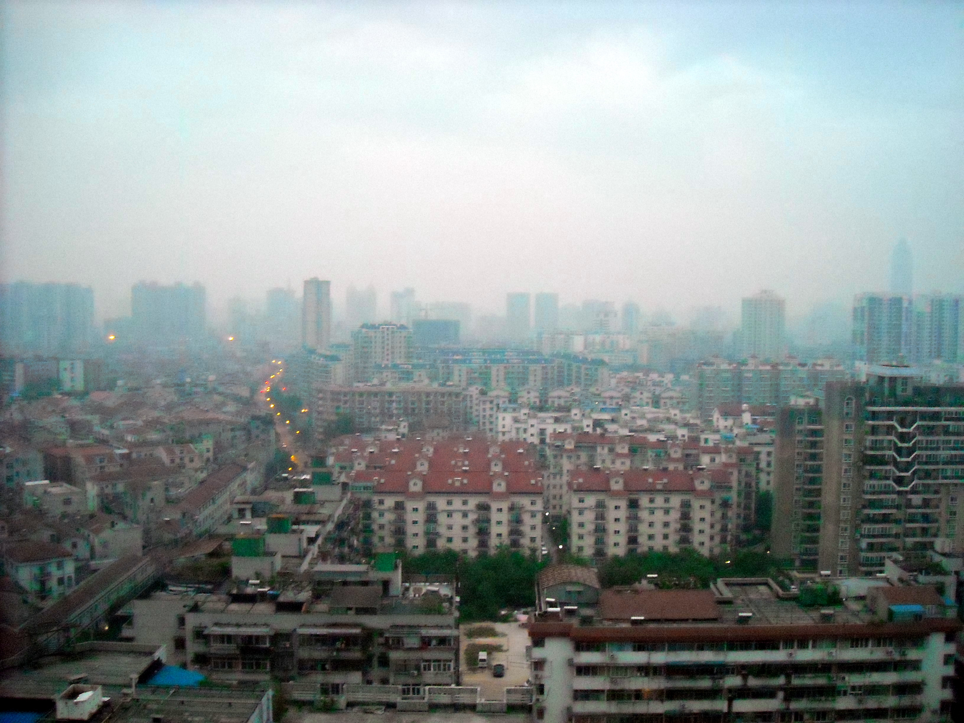 Morning view of Wuhan City